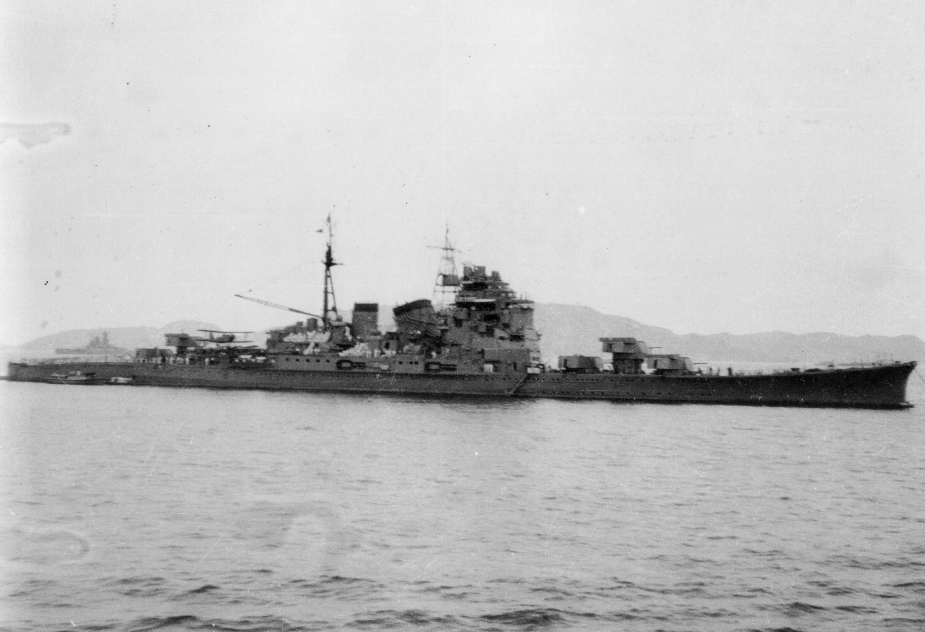 Chokai, Takao class heavy cuiser of the Imperial Japanese Navy, anchor at Chuuk Islands, and BB Yamato(behind left).